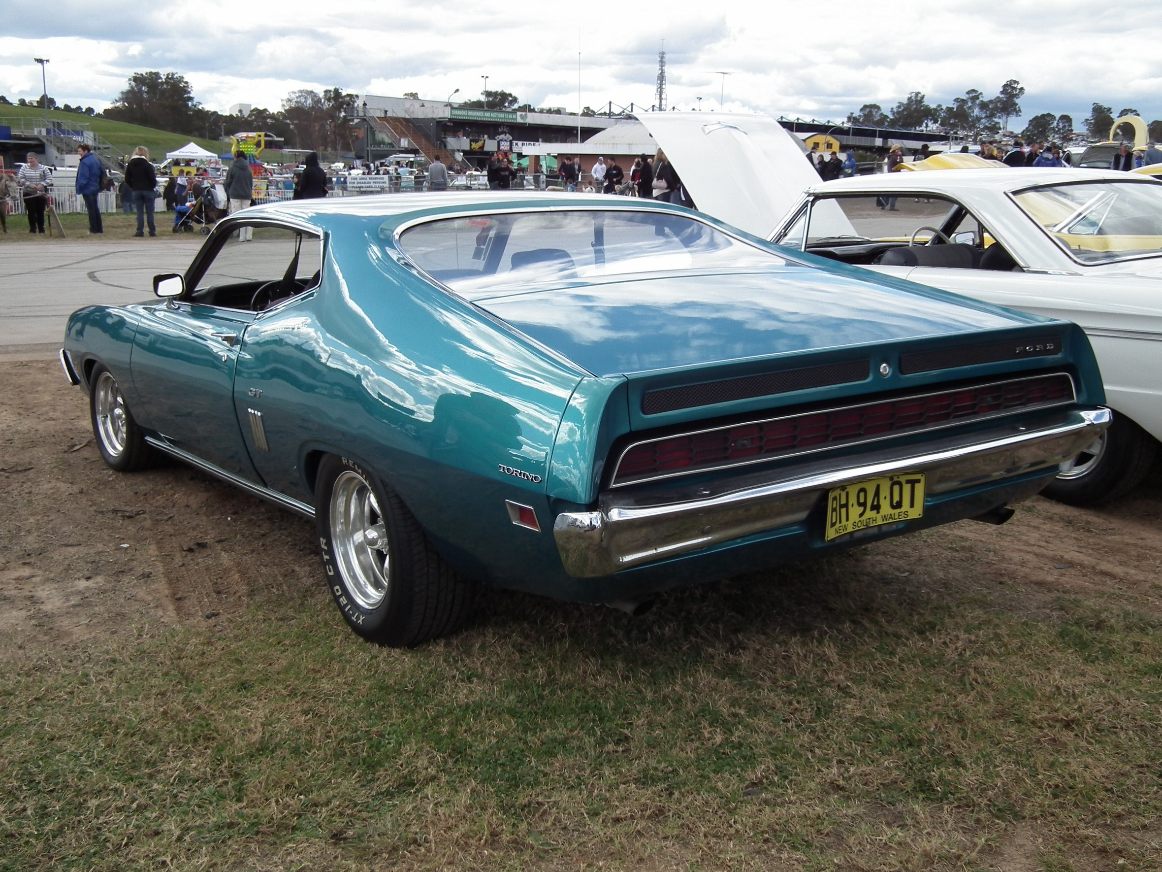 1970 Ford Torino coupe. Taken at the 2012 New South Wales All Ford Day, held at Sydney Motorsport Park (formerly Eastern Creek Raceway).